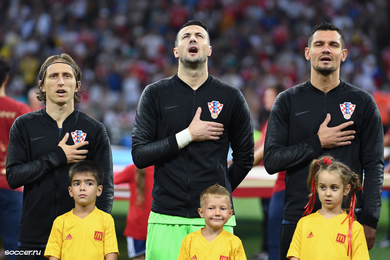 Luka Modrić, Danijel Subašić and Dejan Lovren line-up for Croatia before the game v Russia, 7 July 2018